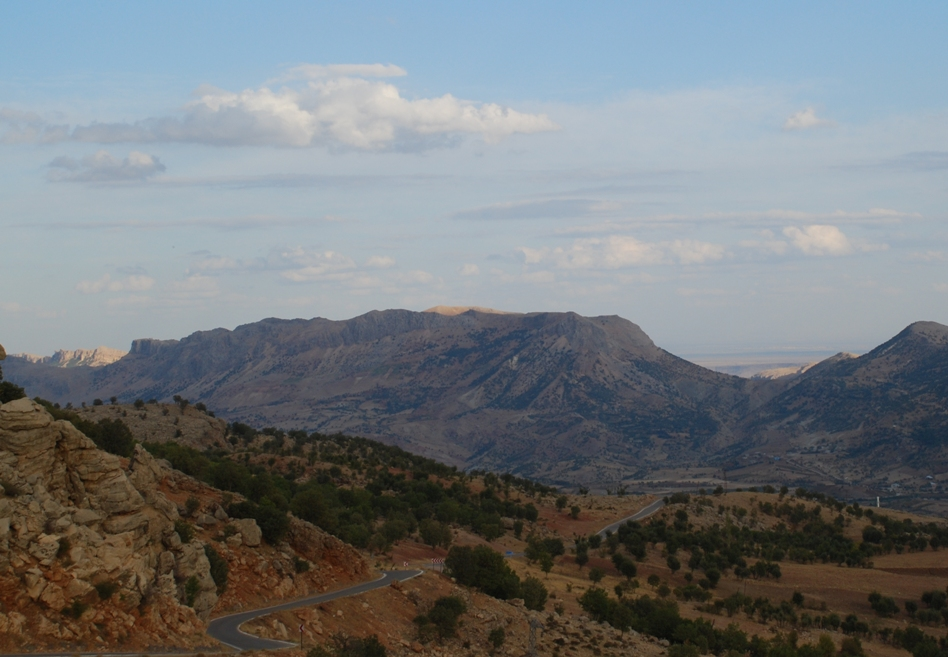 Mount Nemrut Landscape